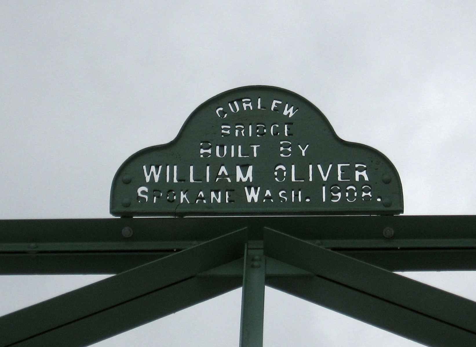 The Builders sign over the east end of the Curlew Bridge